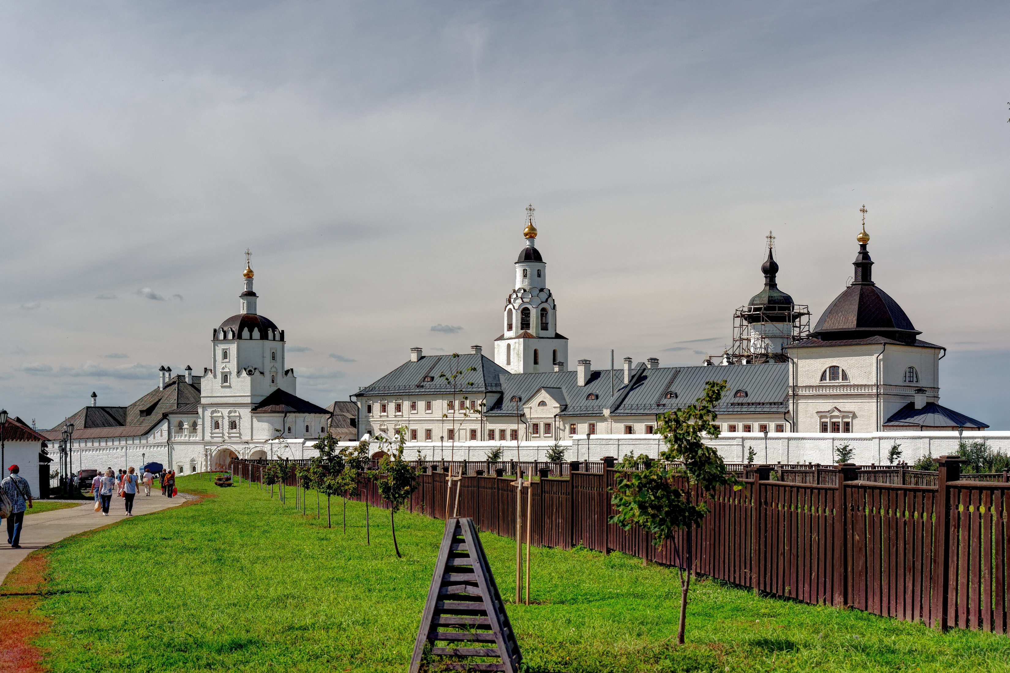 Sviyazhsk. Uspensko-Bogorodichny Monastery